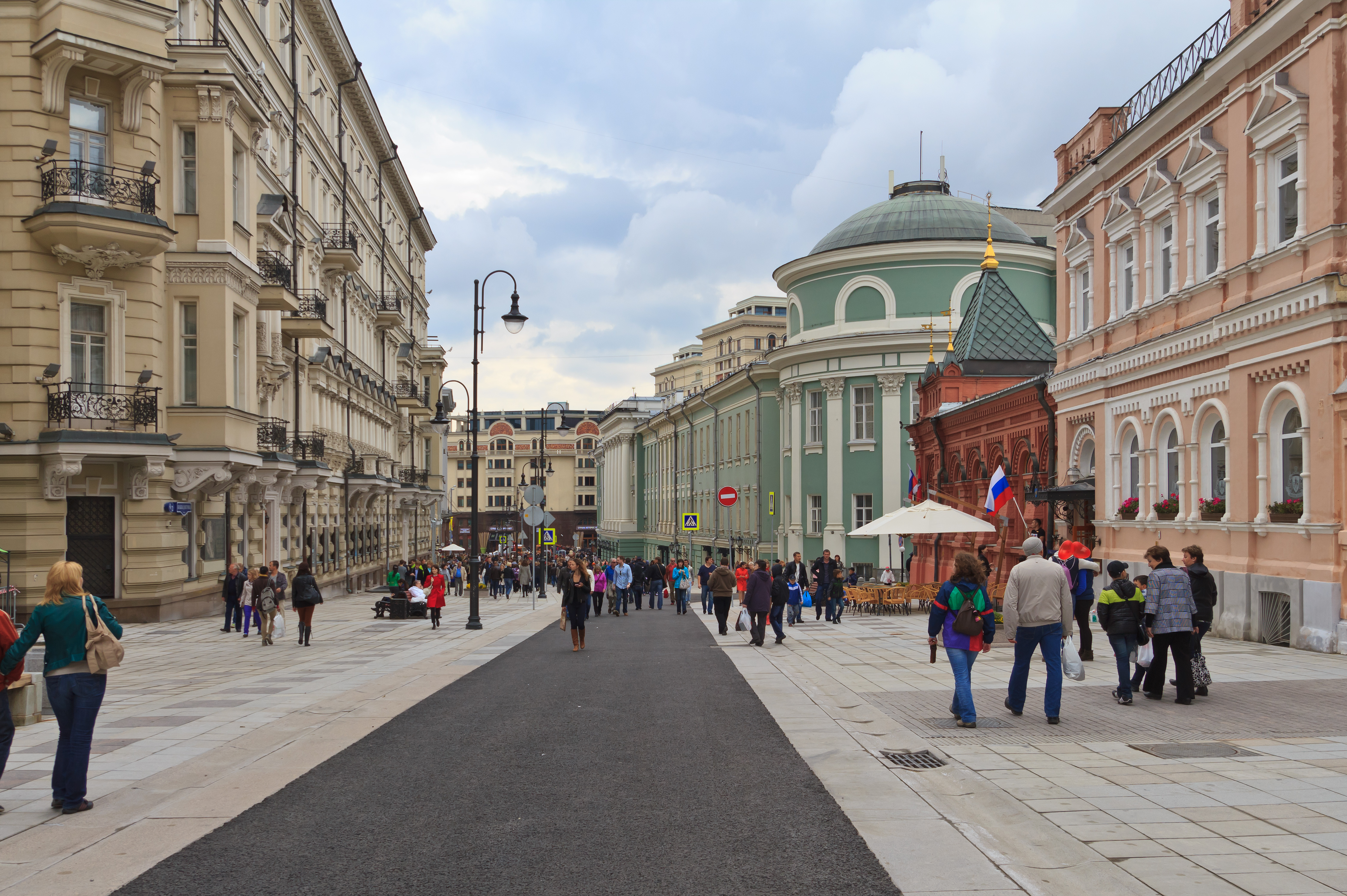 Day of the Town 2013 in Moscow, Russia. Bolshaya Dmitrovka Street.